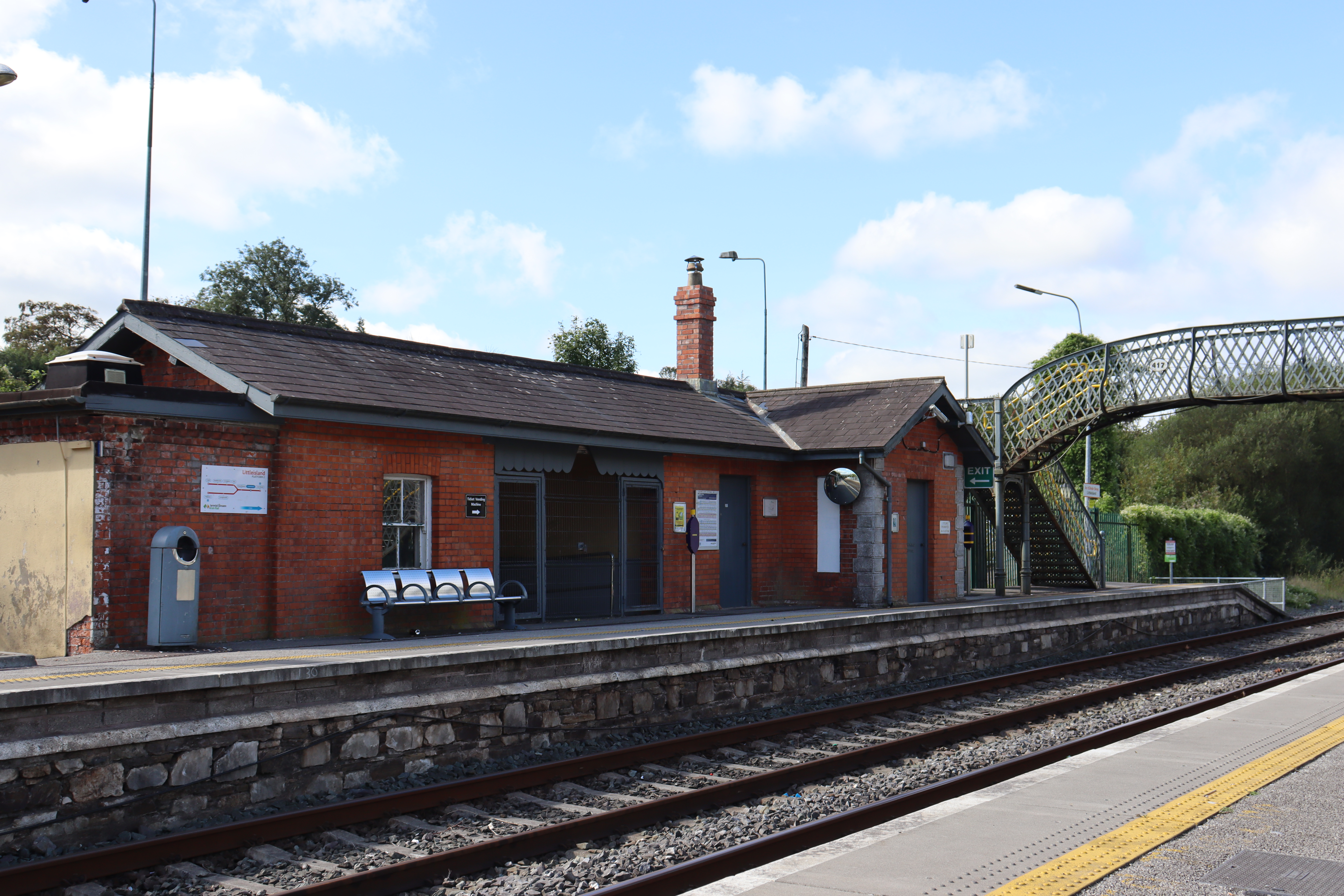 Little Island railway station. Wikidata has entry Q3969972 with data related to this item.